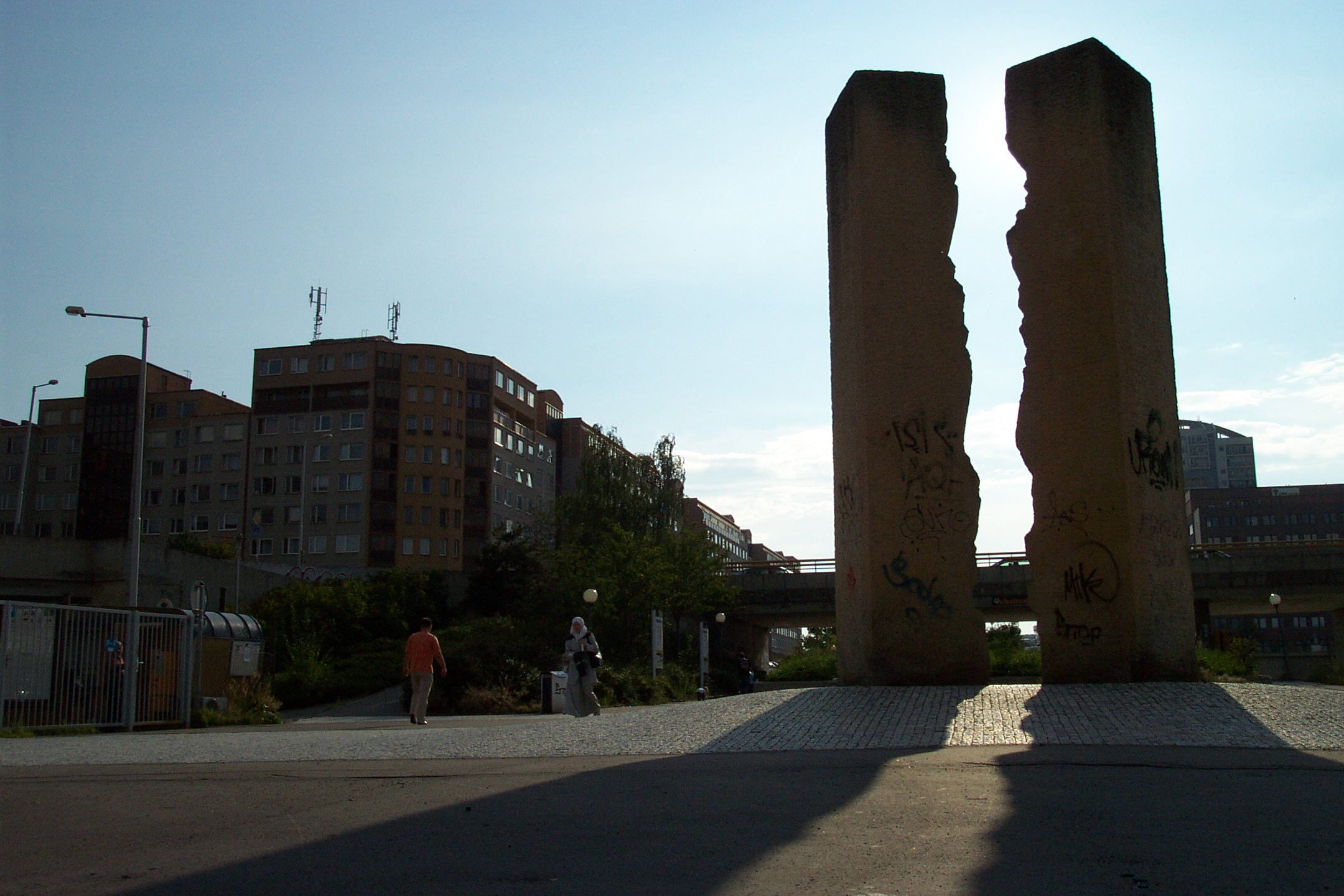 Sculpture near Nové Butovice metro station in Prague, CZ